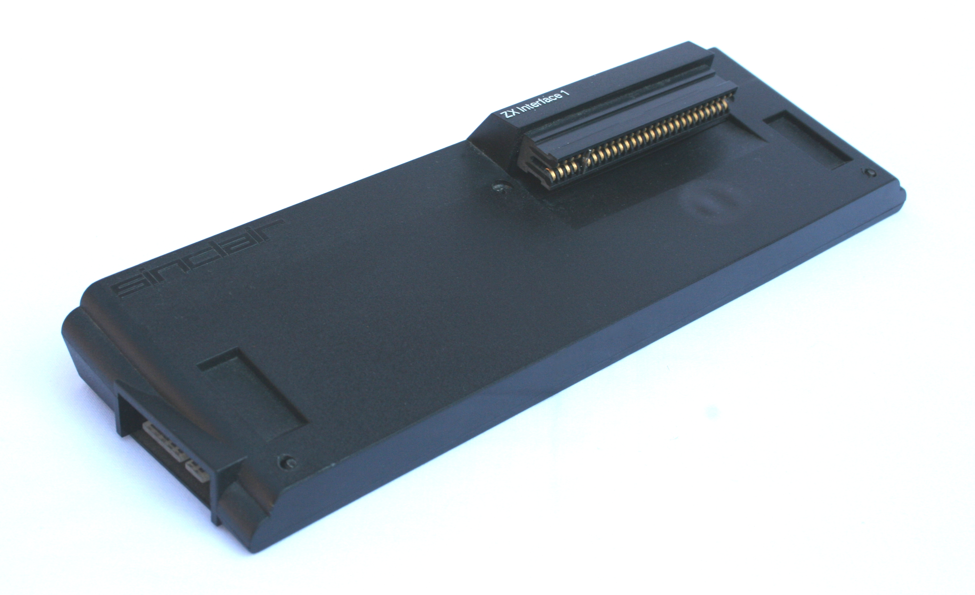 Sinclair ZX Interface 1